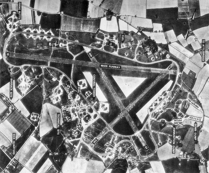 Aerial photograph of Attlebridge Airfield, England.